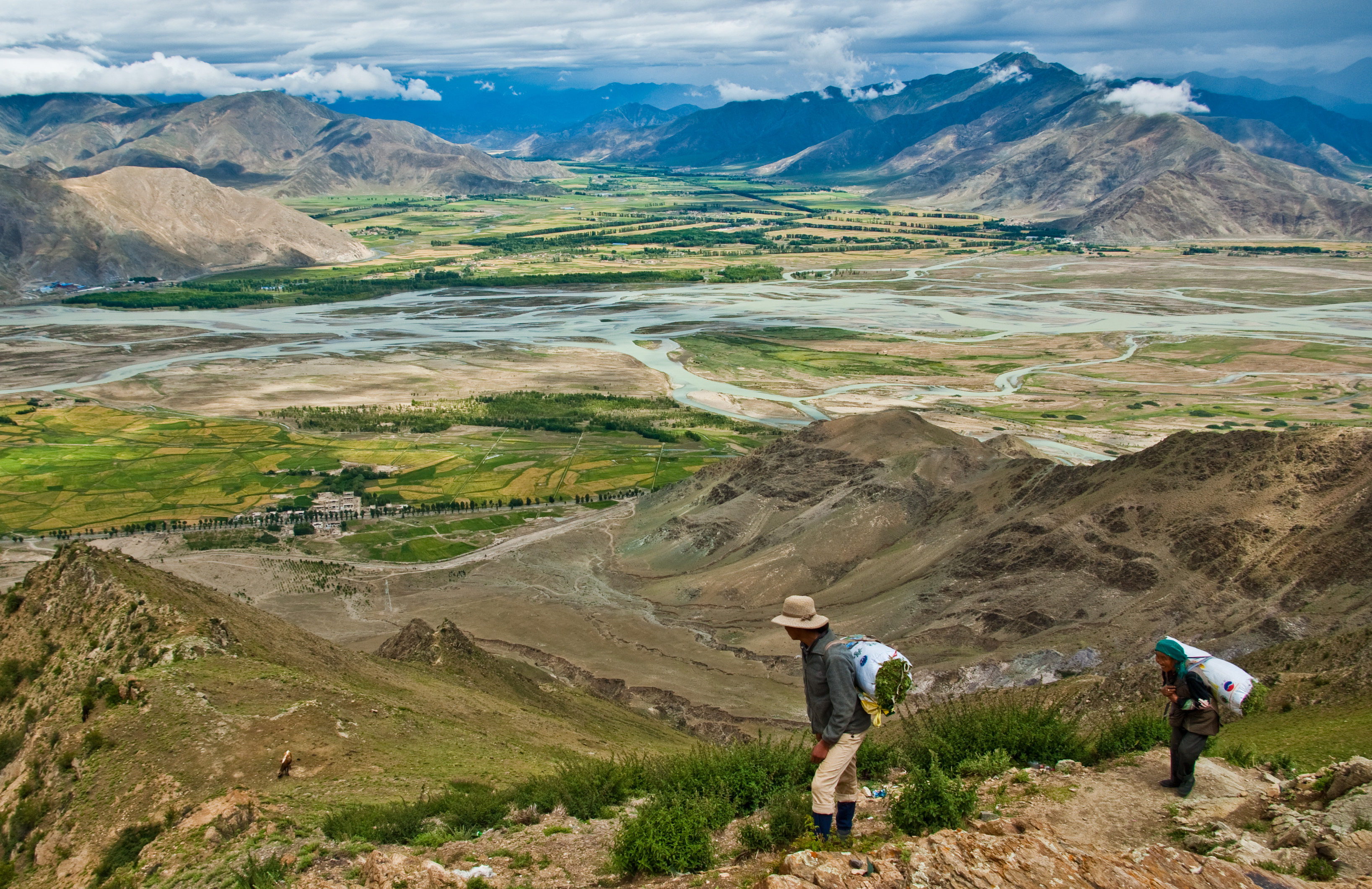 Brahmaputra from Ganden monastery